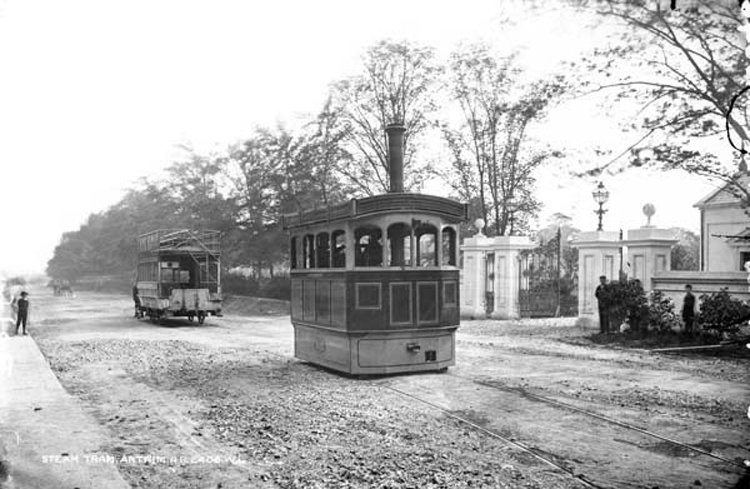 NLI Ref.: L_CAB_02406